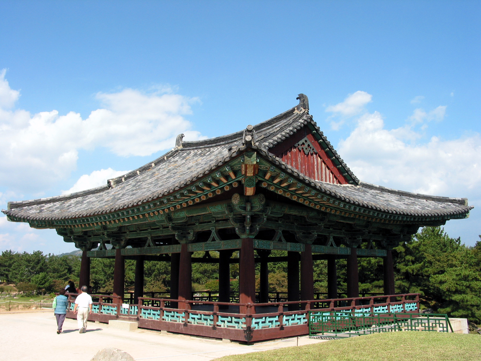 A reconstructed pavilion at Anapji, a pleasure garden built after Silla unified most of the Korean Peninsula.